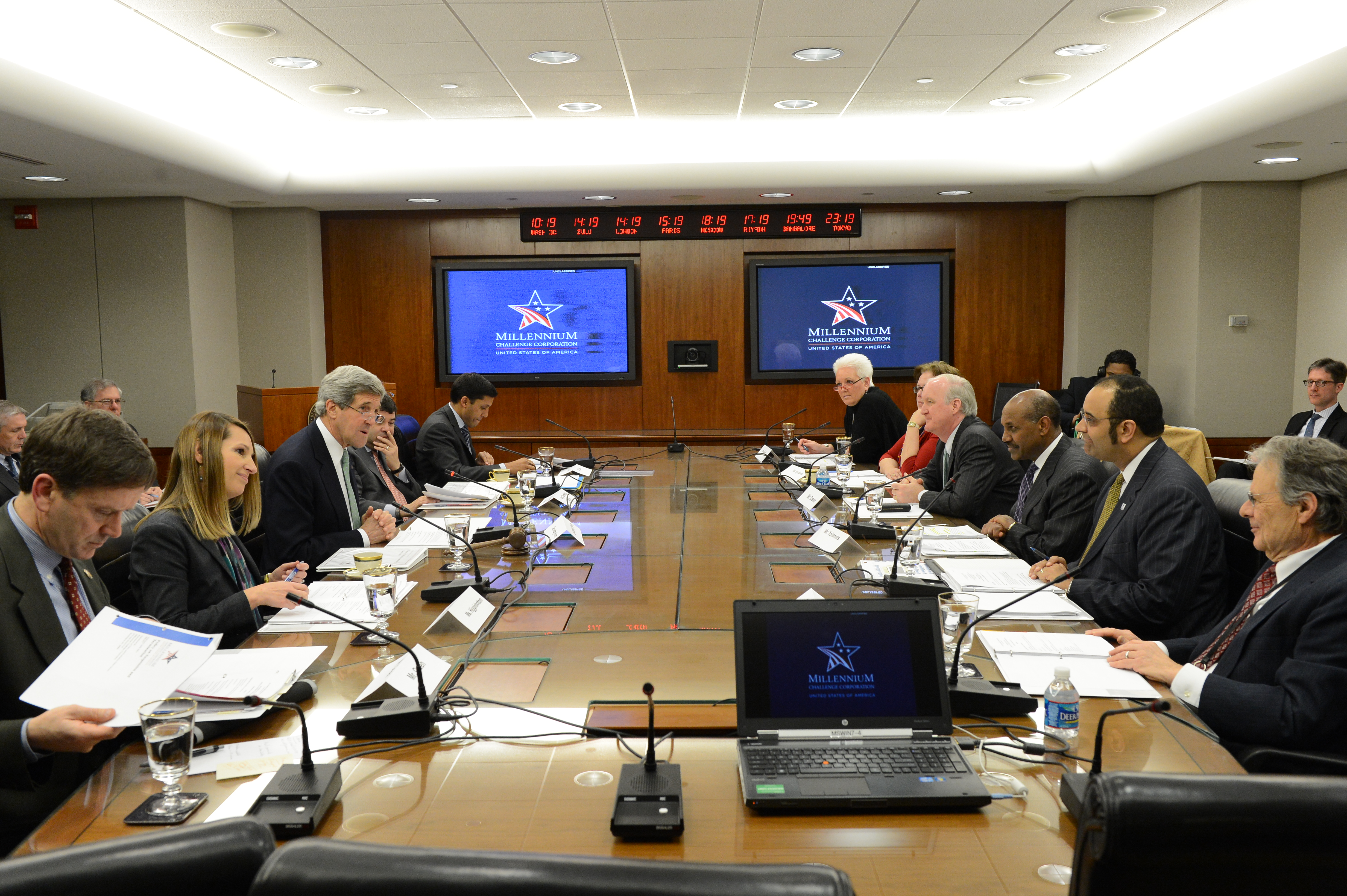 U.S. Secretary of State John Kerry hosts and chairs the Quarterly Millennium Challenge Corporation (MCC) Board of Directors meeting at the U.S. Department of State in Washington, D.C., on March 14, 2013. [State Department photo/ Public Domain]